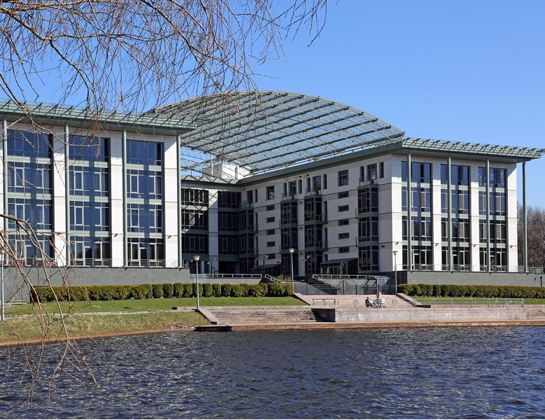 фасад комплекса Пятый Элемент со стороны Южного пруда